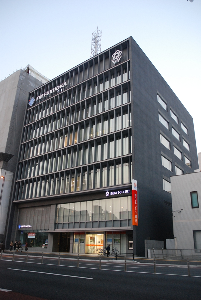 FMFUKUOKA building,in Japan,Fukuoka. Picture taken by myself,on november 26 2008.